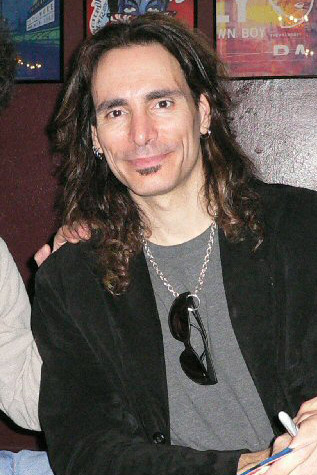 Steve Vai; photo by Mike R.